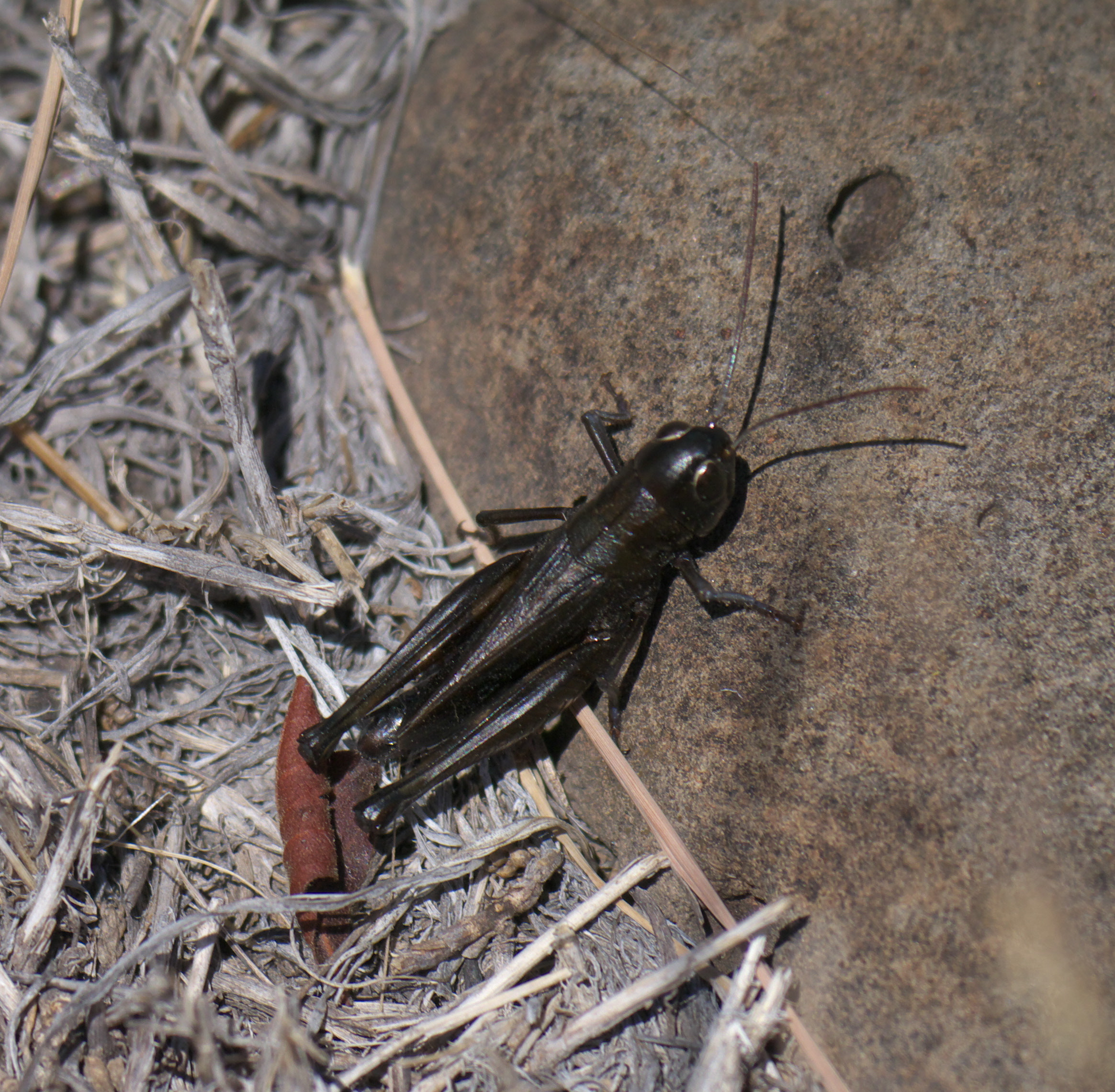 Boopedon nubilum, Ebony Grasshopper, ID Confidence: 98